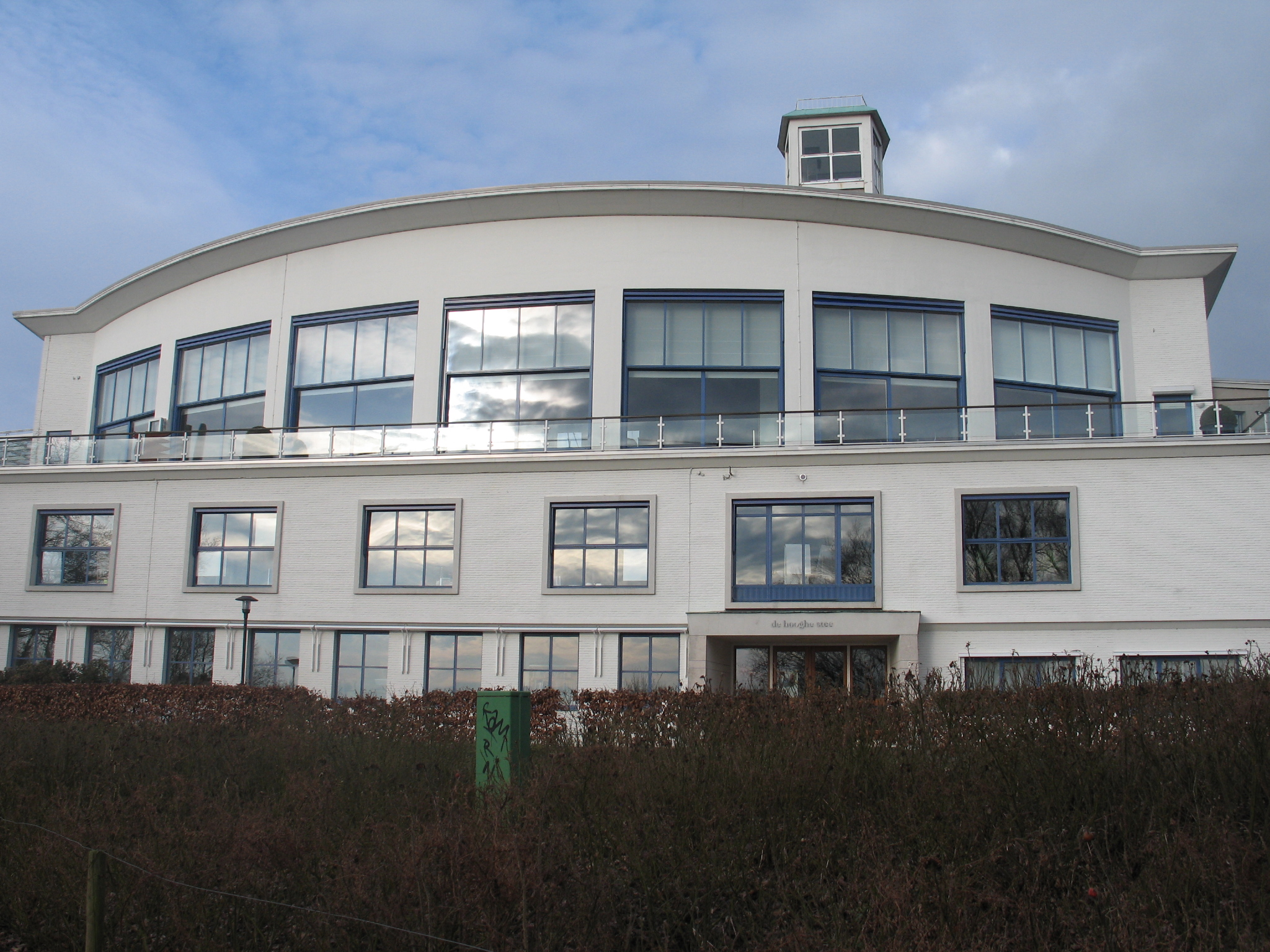 Laboratorium Landmeetkunde, Wageningen